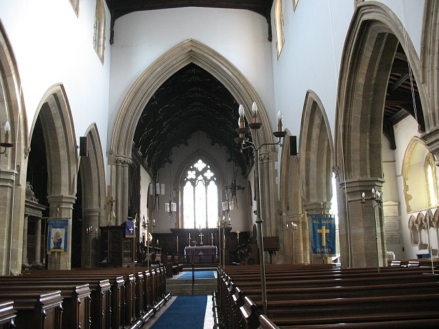 All Saints, Turvey: nave looking east The parish church demonstrates a variety of architectural forms. The nave was restored and the chancel rebuilt by Scott in the 19th century. for the list description.